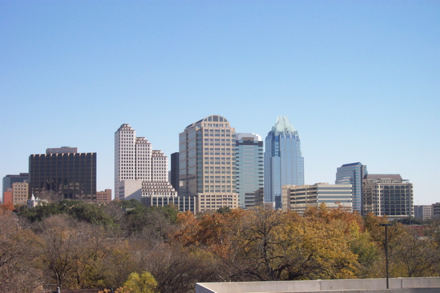 Austin skyline, from atop the parking garage at 6th & Lamar.